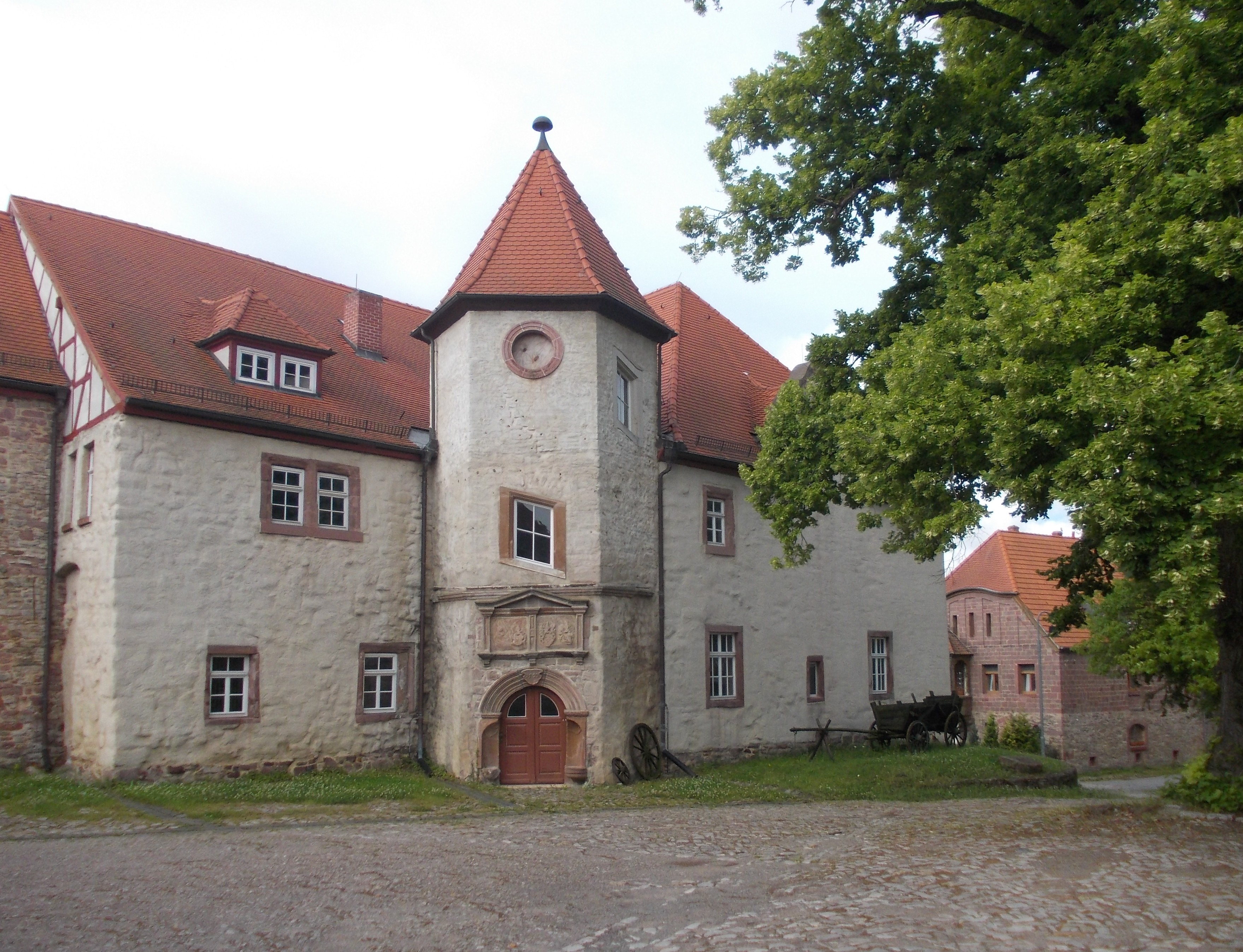 Klosterrode estate (Blankenheim, Mansfeld-Südharz district, Saxony-Anhalt)